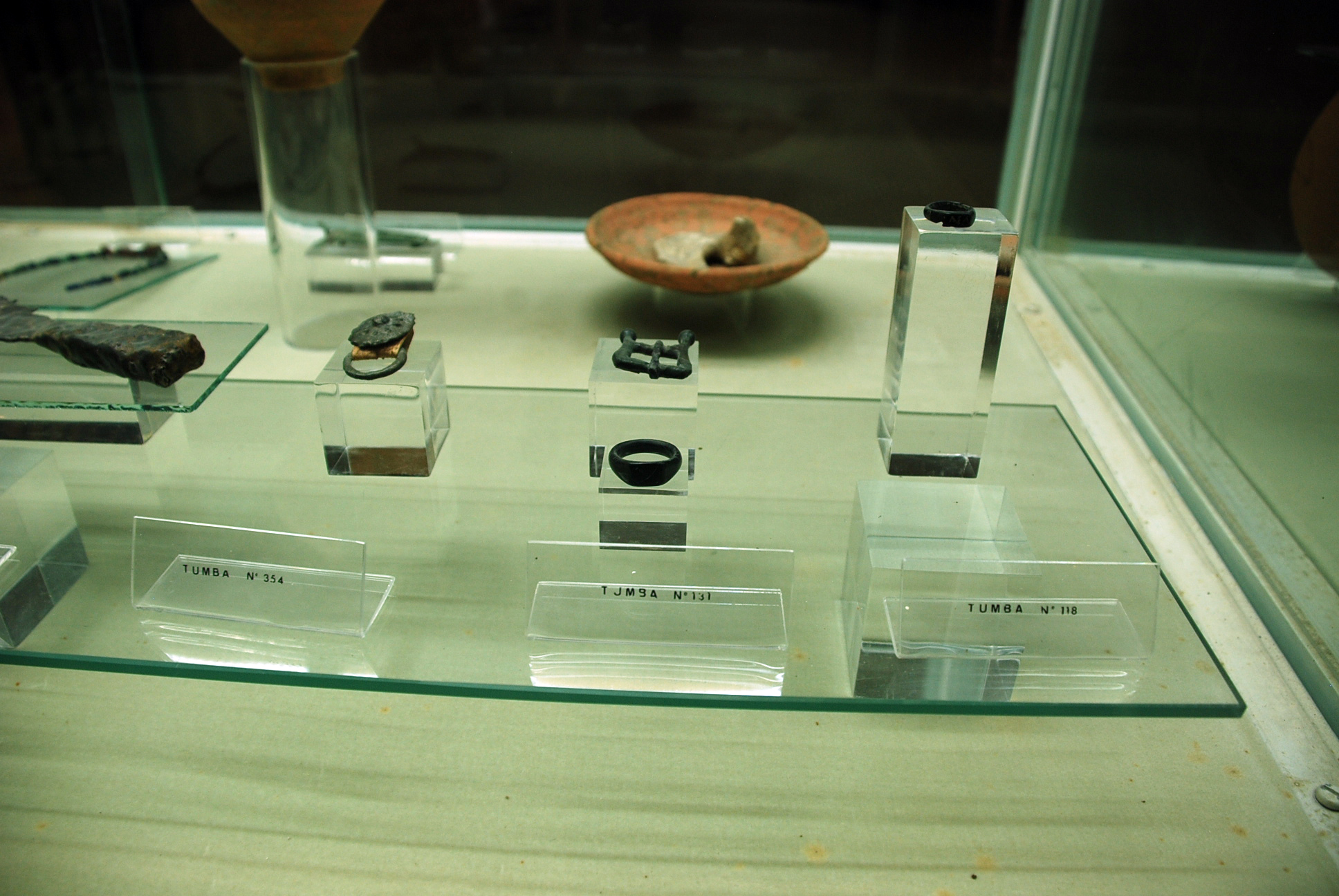 Archaeological museum of San Pedro in Saldaña (Palencia, Castile and León).